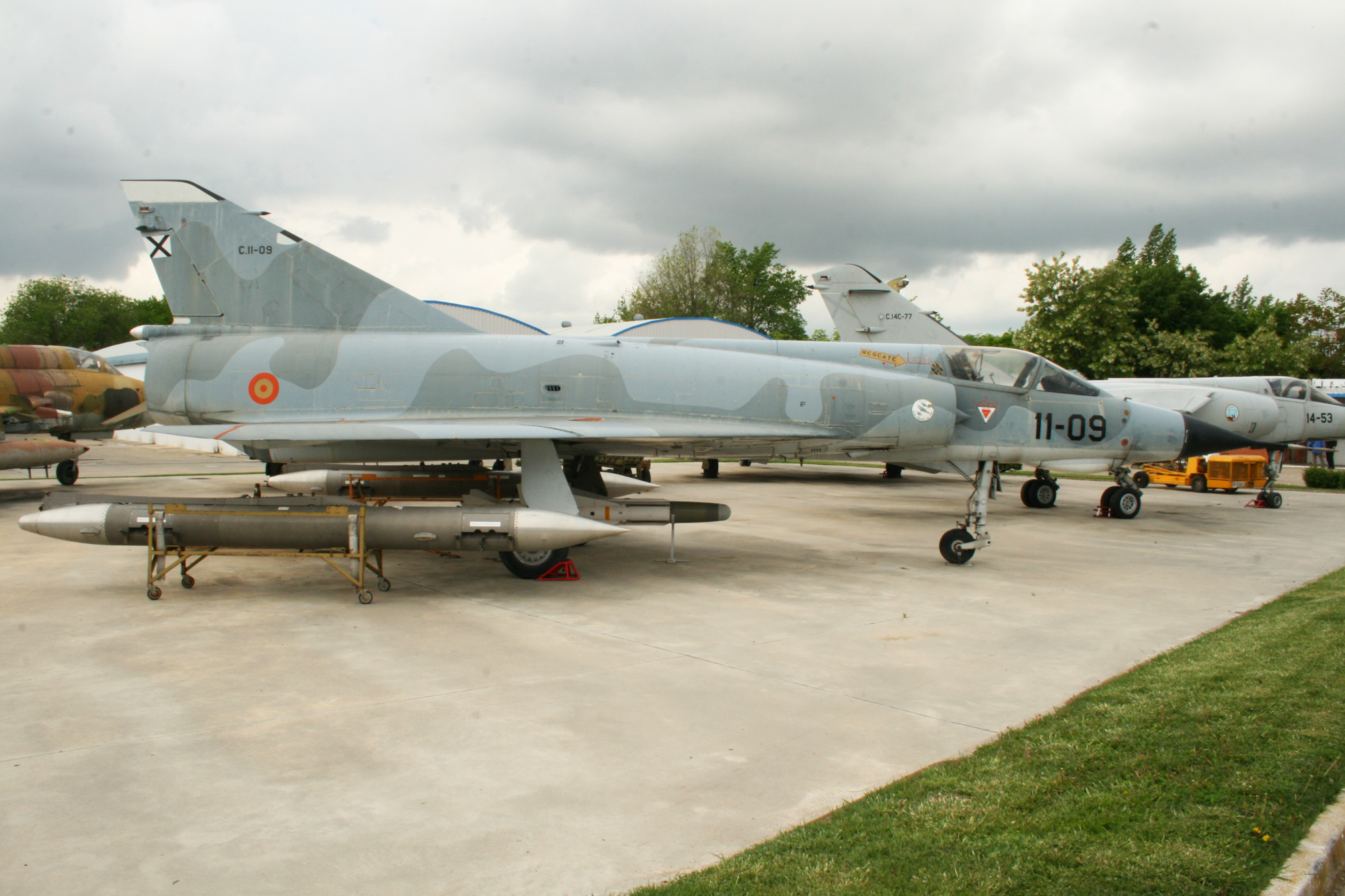 Caza Dassault Mirage IIIEE (C.11-09 / 11-09). Procedente del Ala 11 del Ejército del Aire español, con base en Manises (Valencia). Museo del Aire de Cuatro Vientos (Madrid, España). Mirage IIIEE Fighter aircraft Dassault Mirage IIIEE (C.11-09 / 11-09). From the 11th Wing of the Spanish Air Force, based in Manises (Valencia). Museum of the Air of Cuatro Vientos (Madrid, Spain).